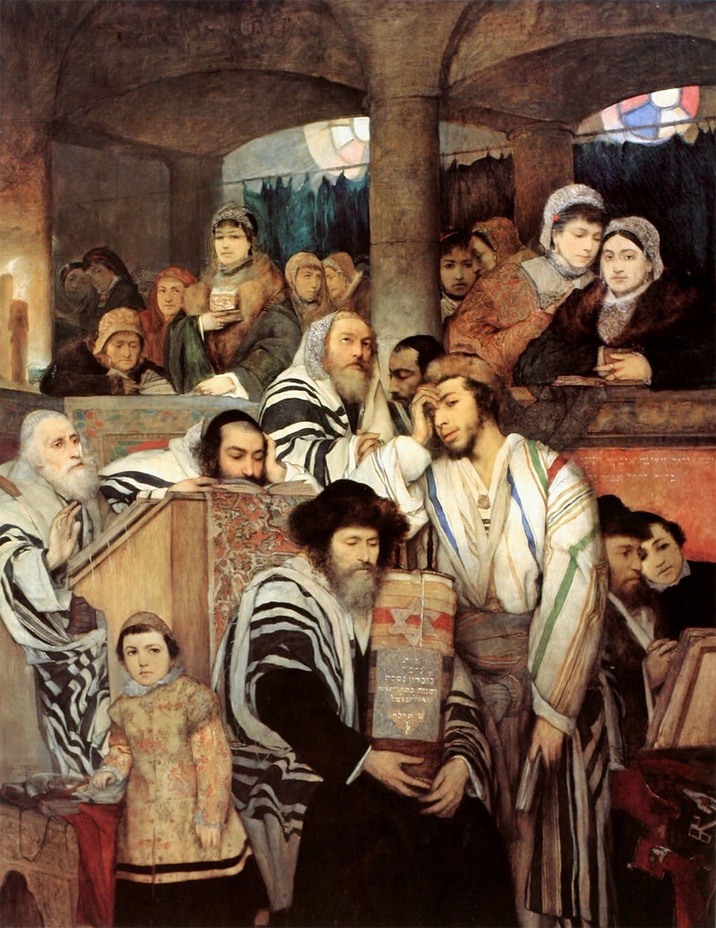 Jews Praying in the Synagogue on Yom Kippur